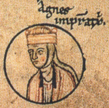 Agnes of Poitou